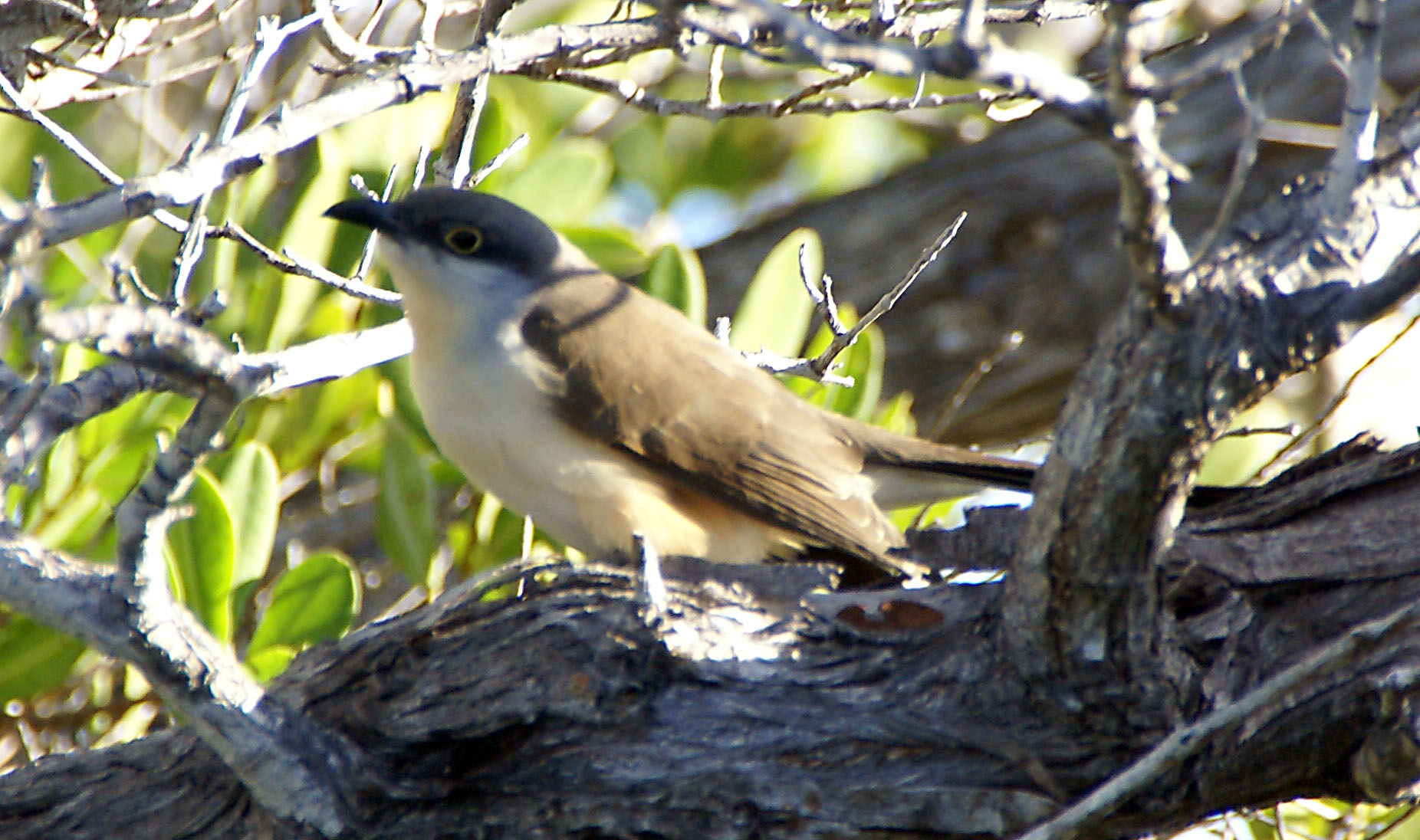 Dark-billed Cuckoo Coccyzus melacoryphus, Galapagos.